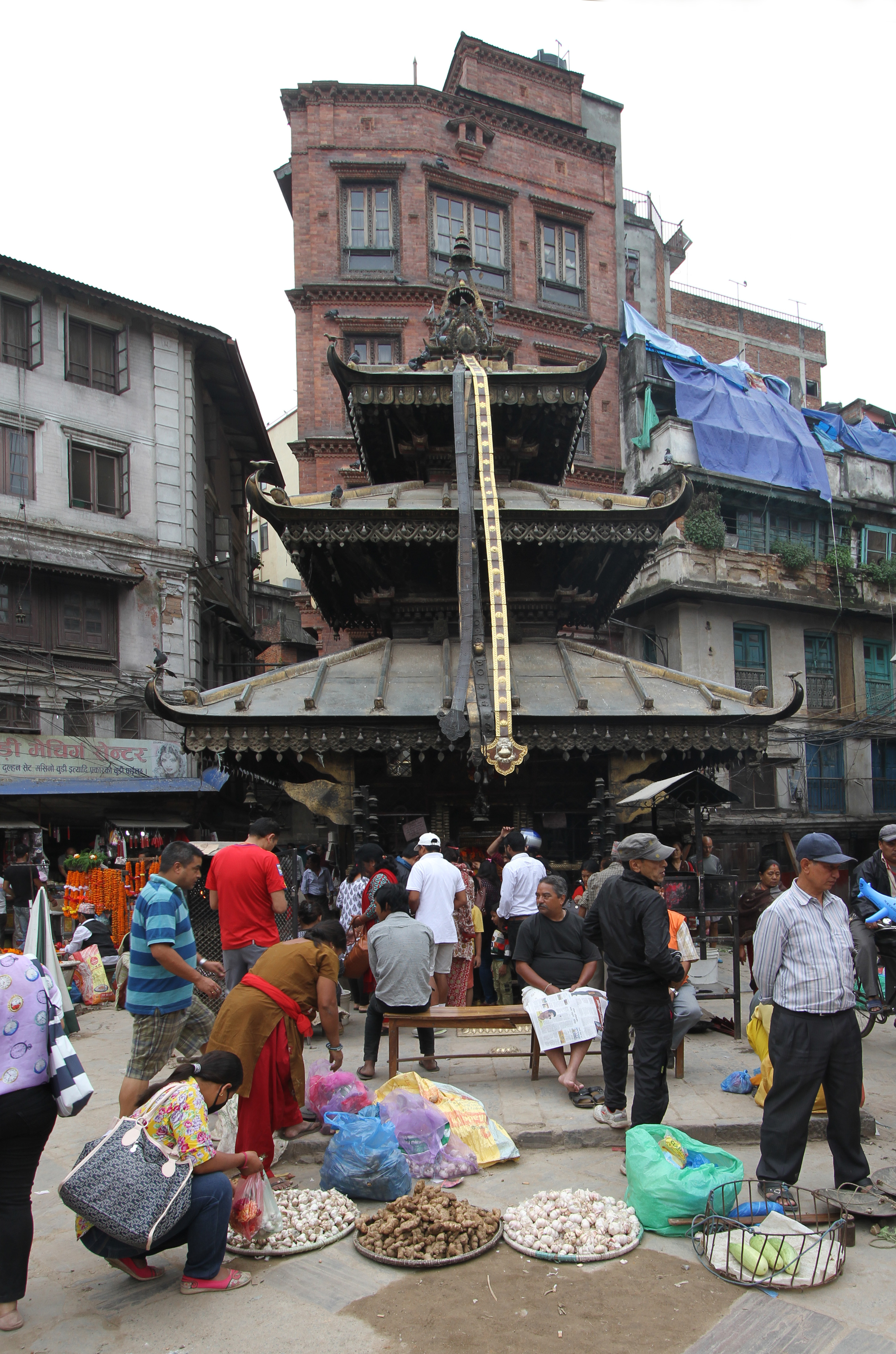 Annapurna Temple, Kathmandu